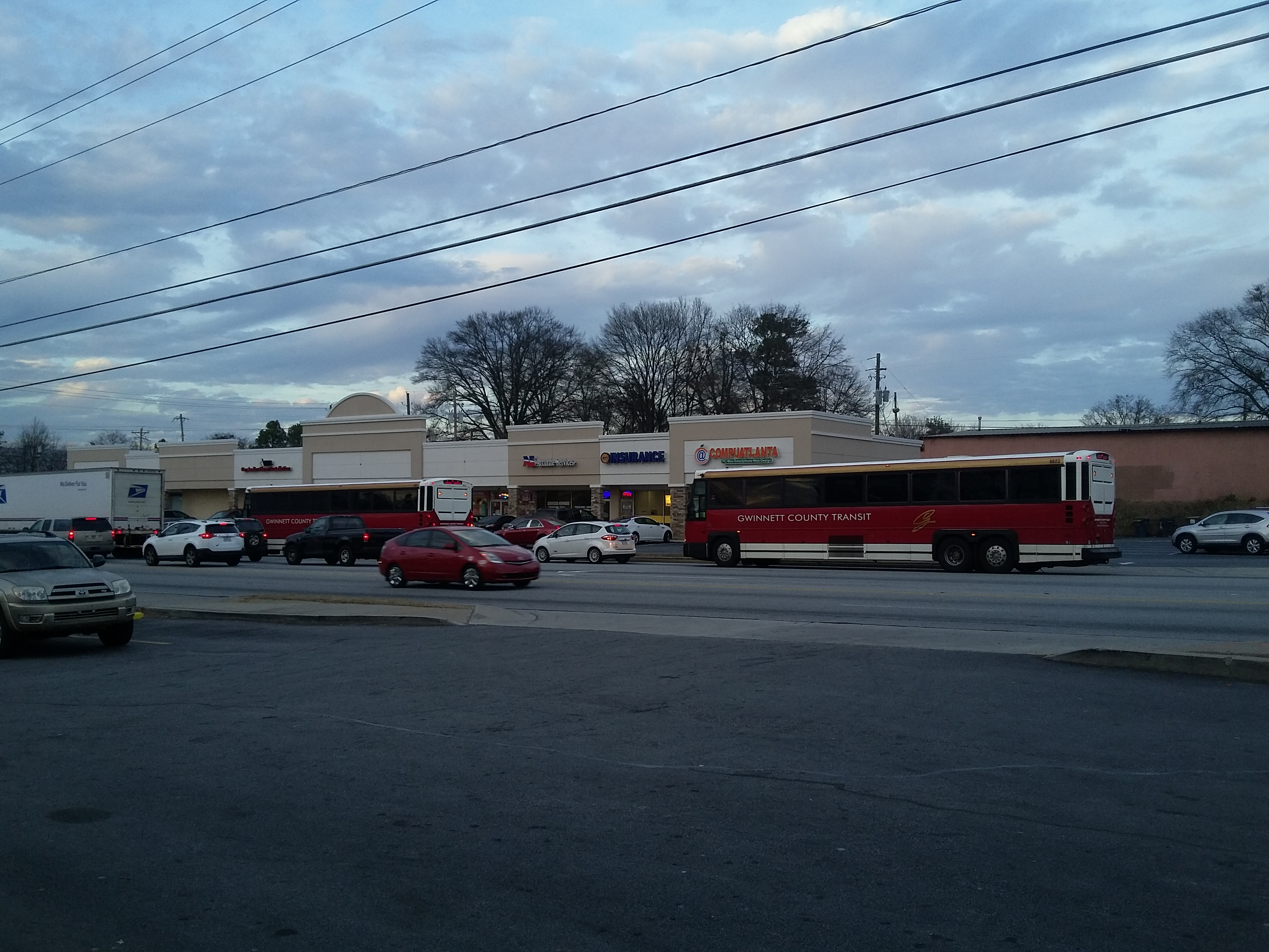 2 MCI D4500CLs on Beaver Ruin Road in Norcross, Georgia.